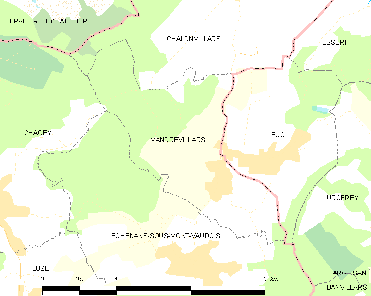 Map of French municipality